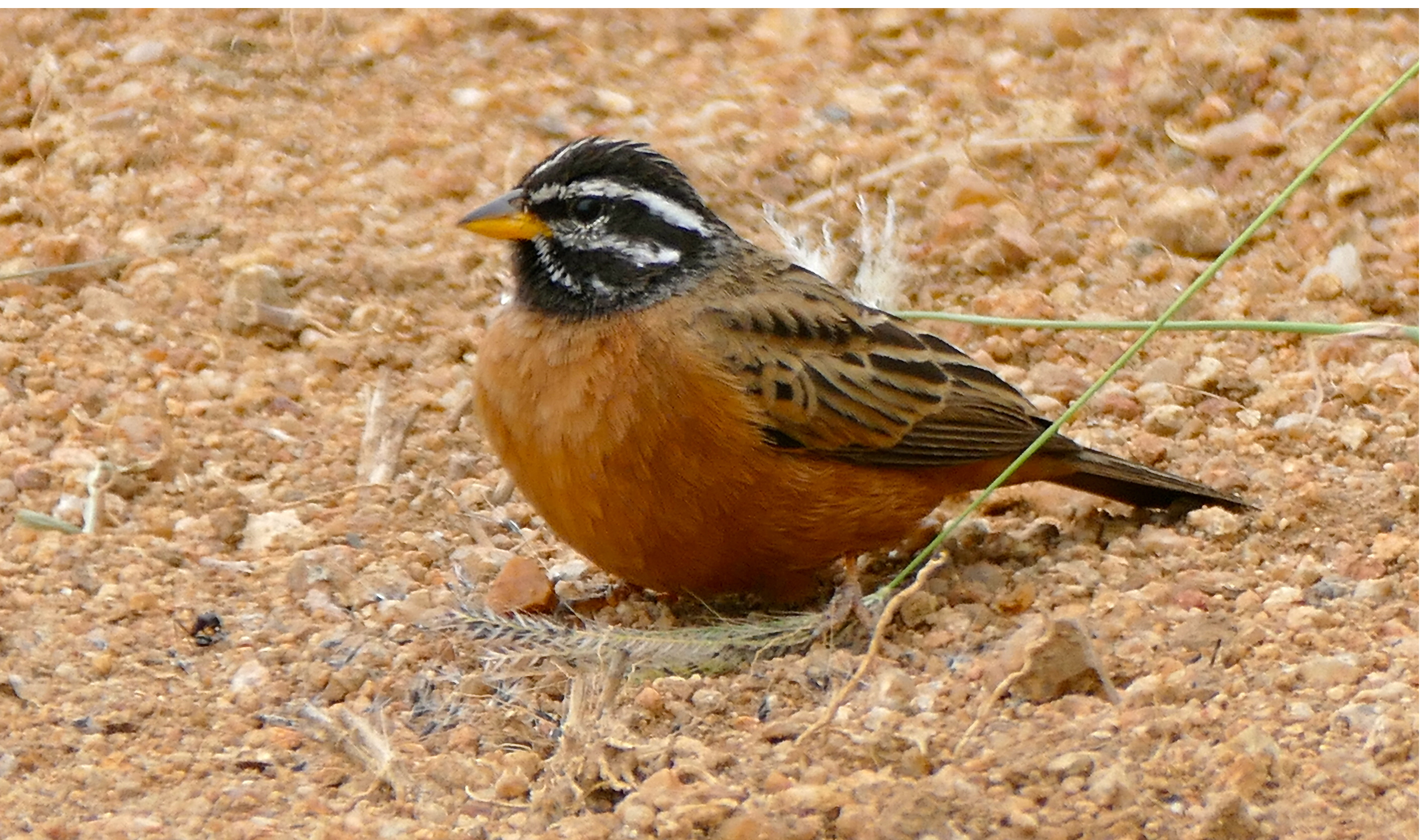 Cinnamon-breasted bunting feeding on grass seed, S139 Road West of Biyamiti, Kruger NP, SOUTH AFRICA